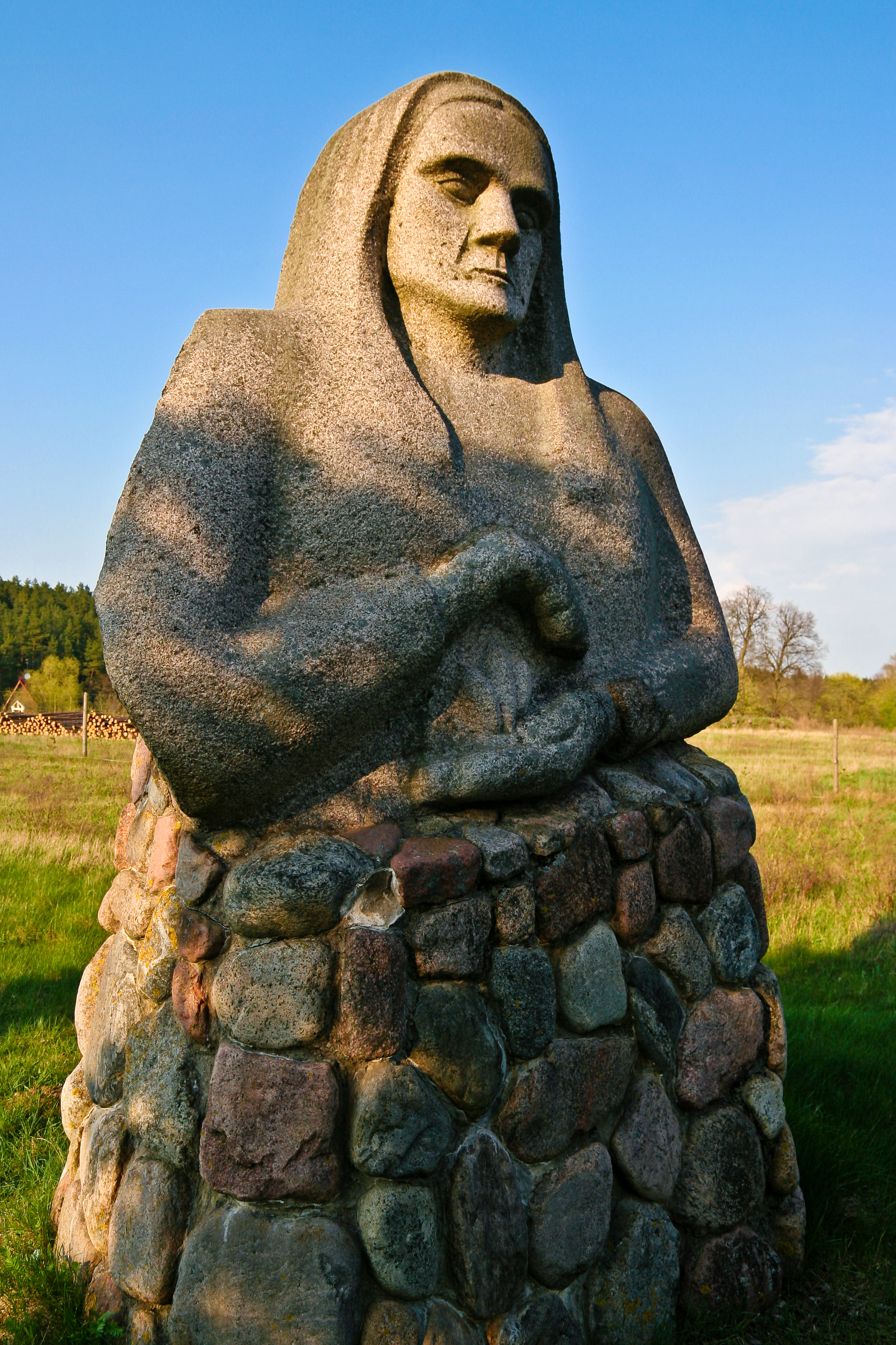 Monument Protector of Life in Vepriai, Lithuania